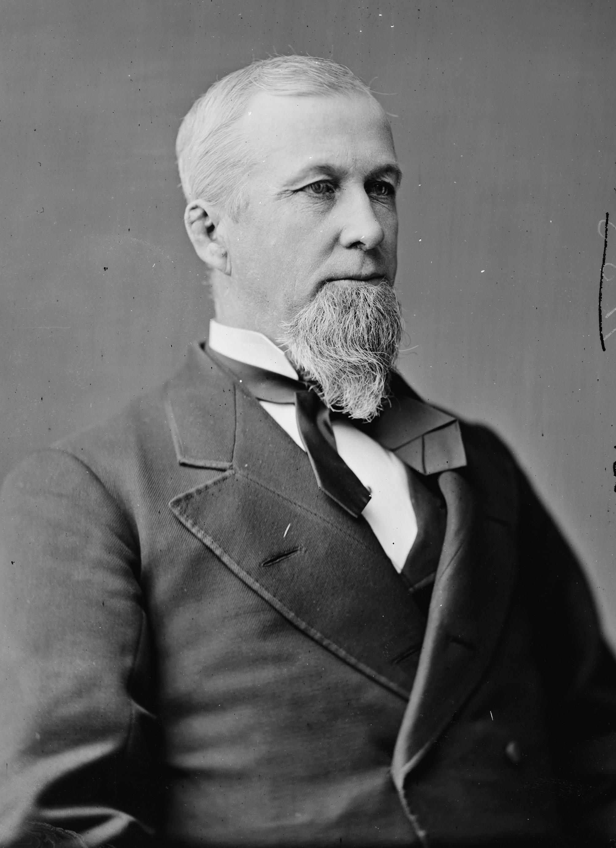 Alanson M. Kimball. Library of Congress description: "Kimball, Hon. Alanson M. of Wisc.".